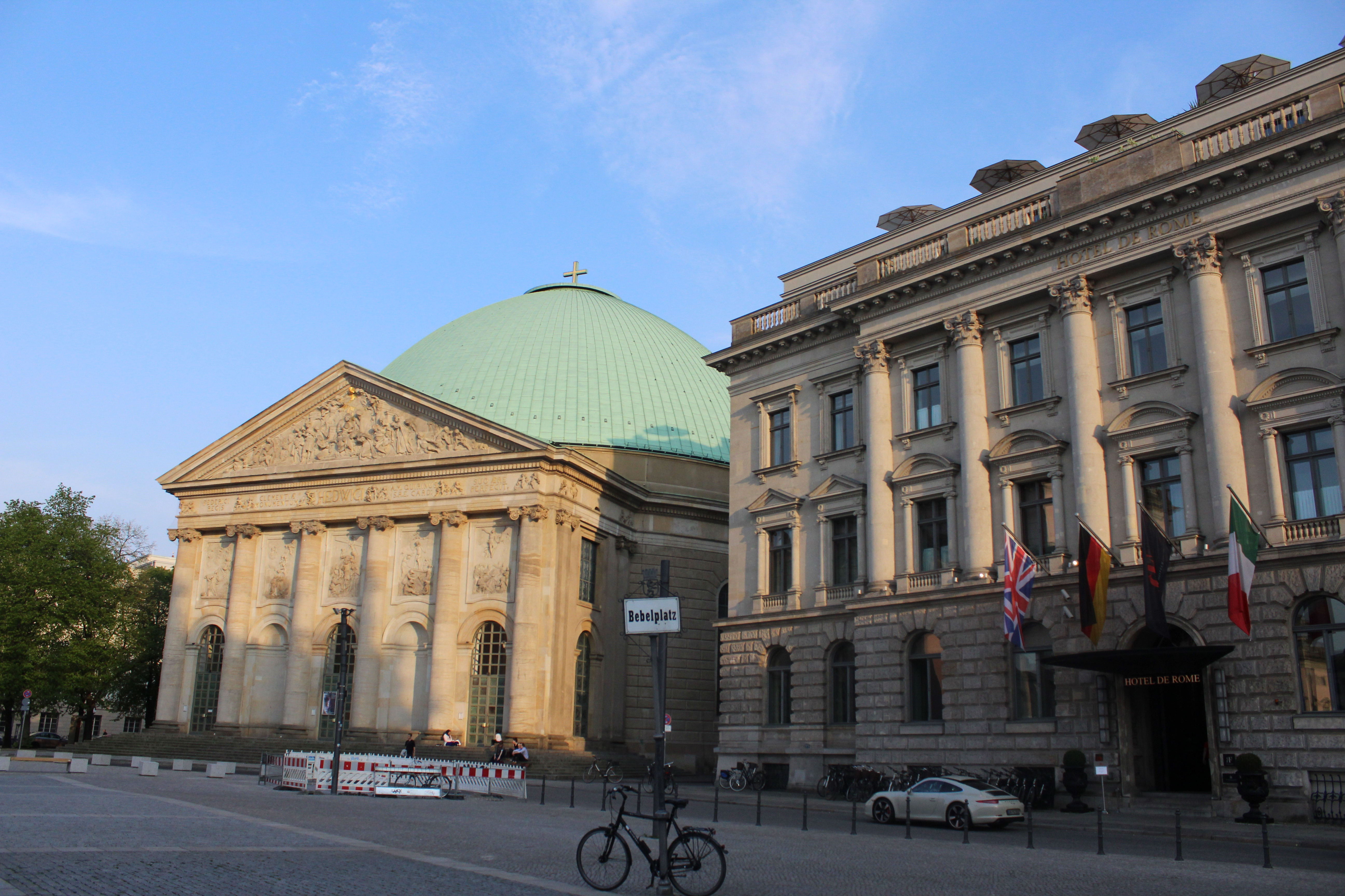 Berlin, Germany